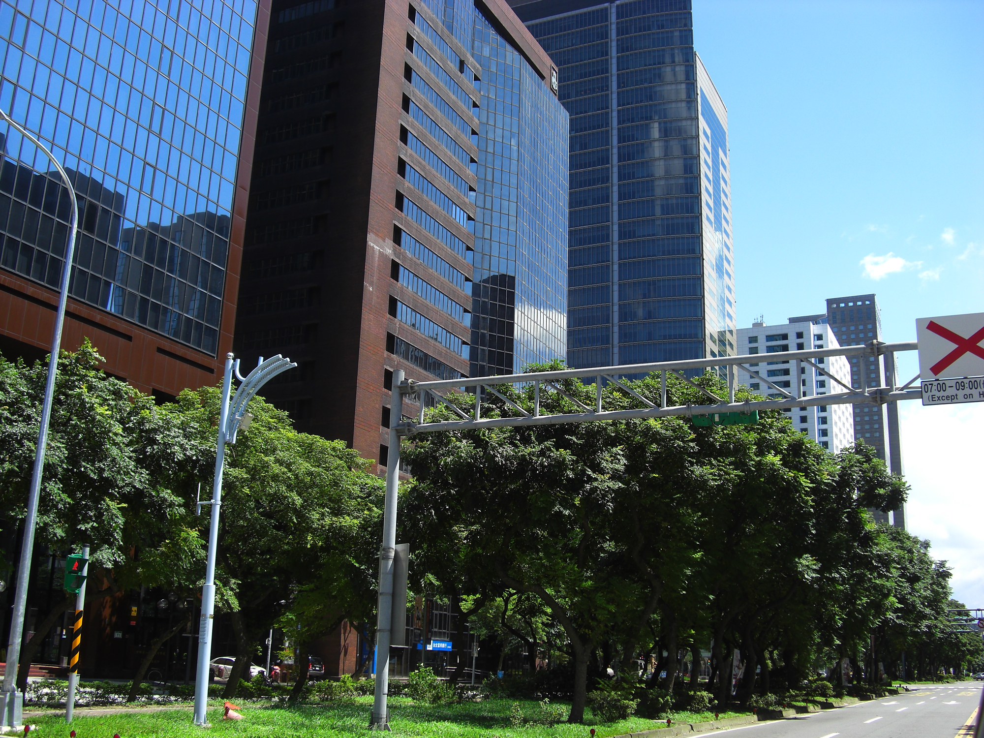 Buildings at the east side of Dunhua South Road.中文（台灣）: 臺北市敦化南路東側辦公大樓。